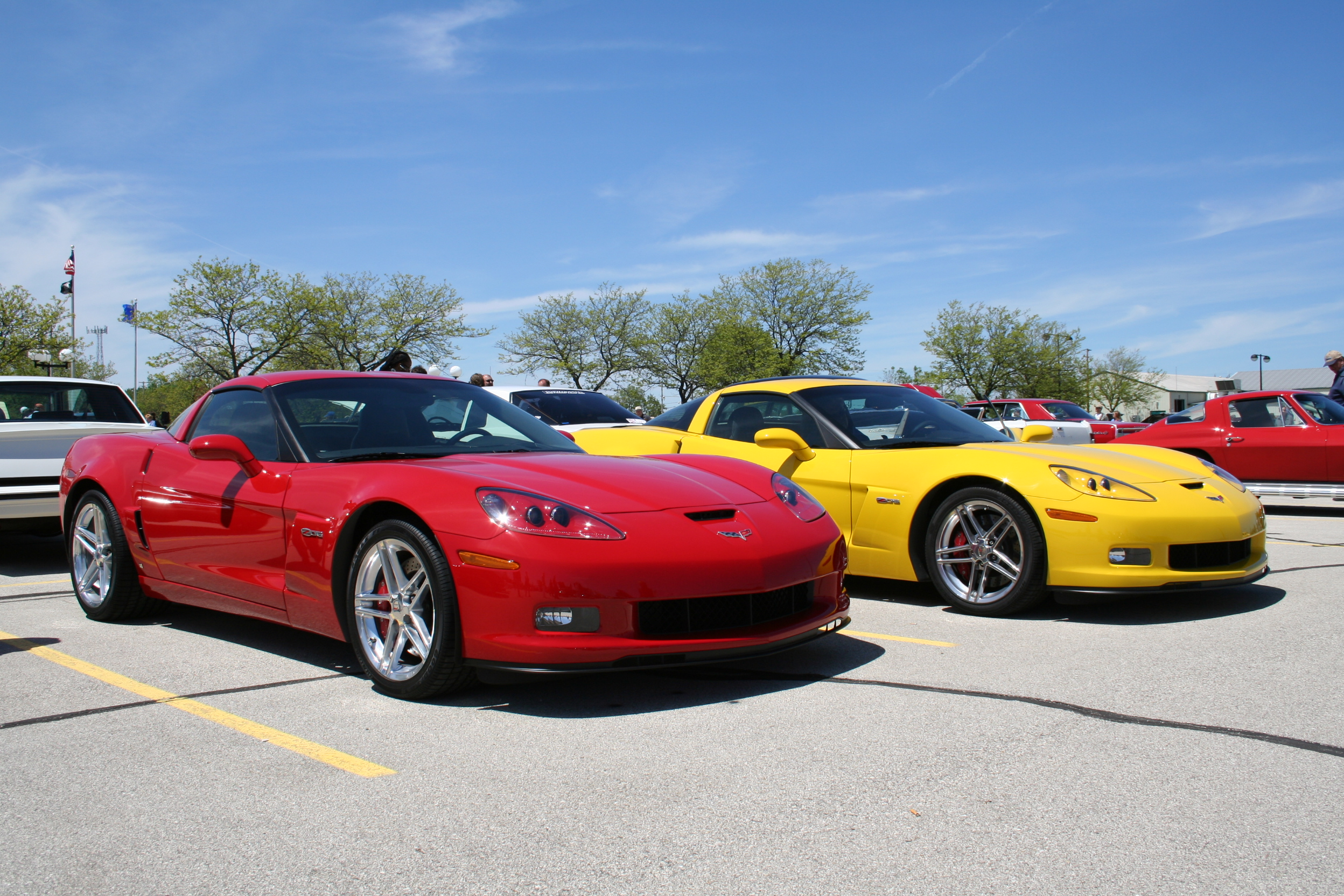 Photo of 2 C6 Z06's at the Waukesha Car Show (May 21st, 2006) that I took.